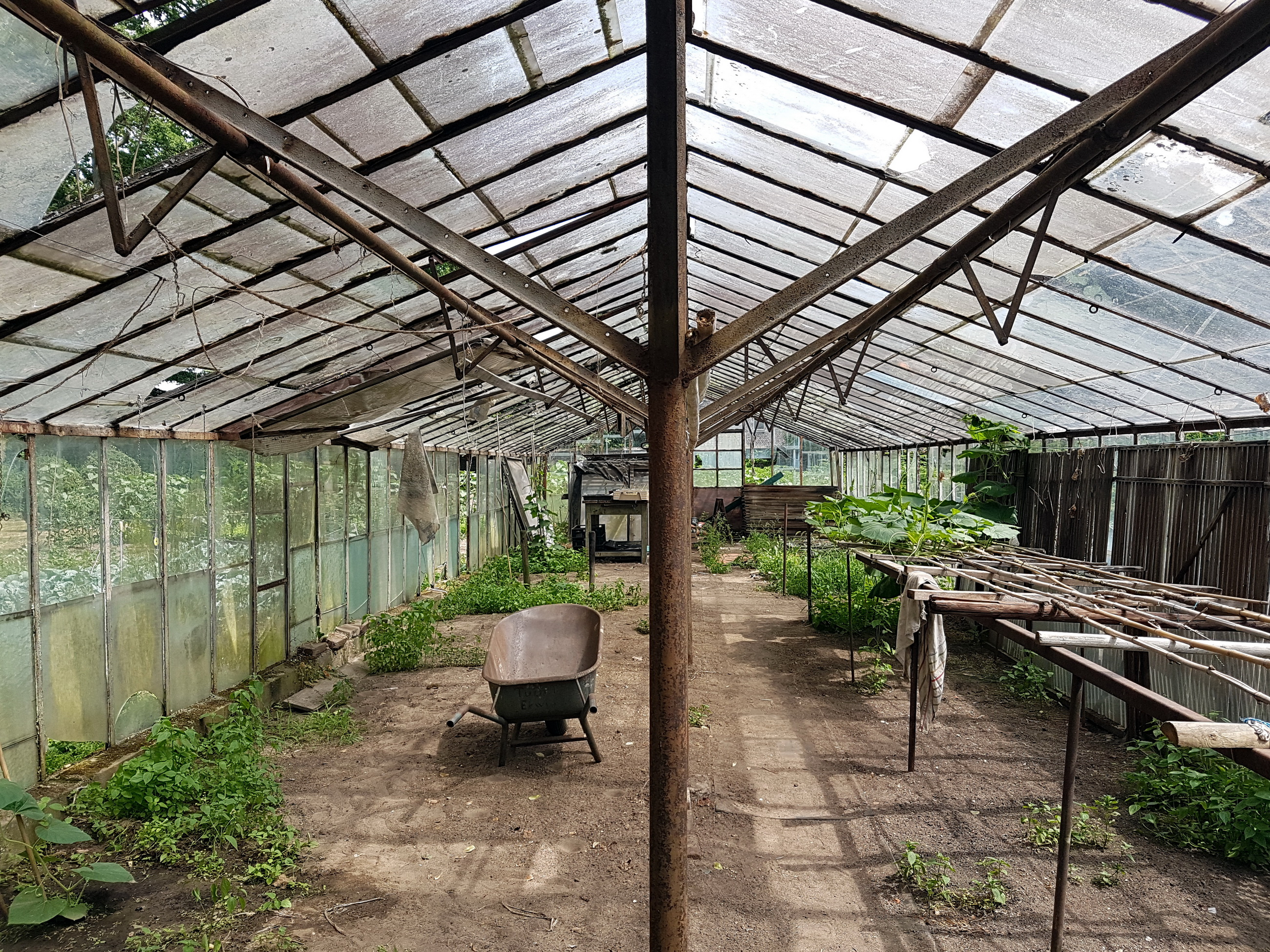 Derelict greenhouse of steel and glass on concrete (c 1925) in the monastery gardens of Missiehuis Sint-Michaël in Steyl (Tegelen), Limburg, the Netherlands. The monastery in Steyl is the motherhouse of the Society of the Divine Word (Latin: Societas Verbi Divini or SVD) of Roman Catholic missionaries. The monastery gardens are divided into three sections: 1. the section around the main monastery buildings, between the river Meuse and Sint Michaëlstraat (the smallest part); 2. the section around Sint-Gregorklooster, south of Parkstraat (shown here); 3. the section around the former print shops, between Parkstraat, Kloosterstraat and Zusterstraat (the largest part).